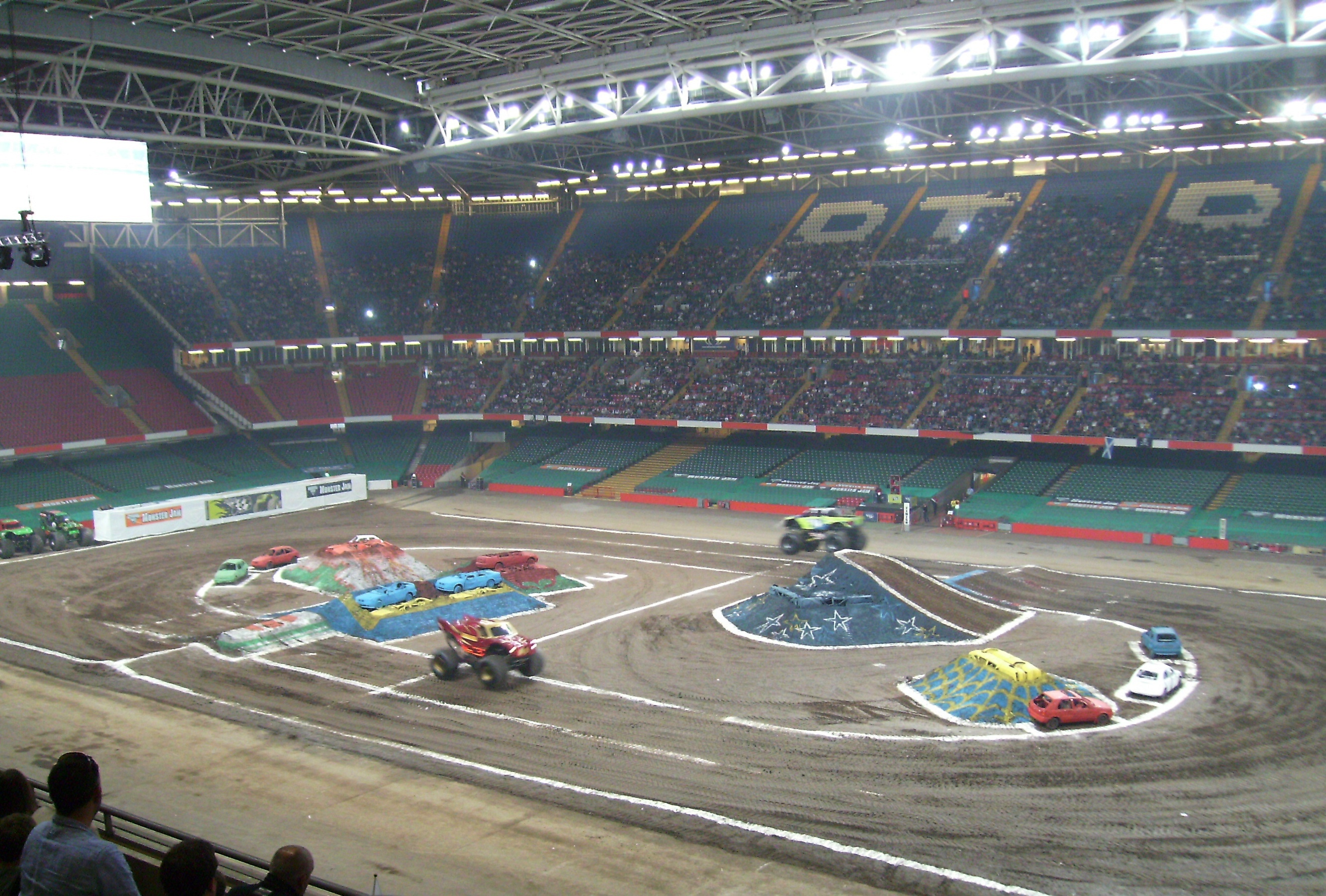 Iron Man (truck) at the Millennium Stadium, Cardiff, Wales